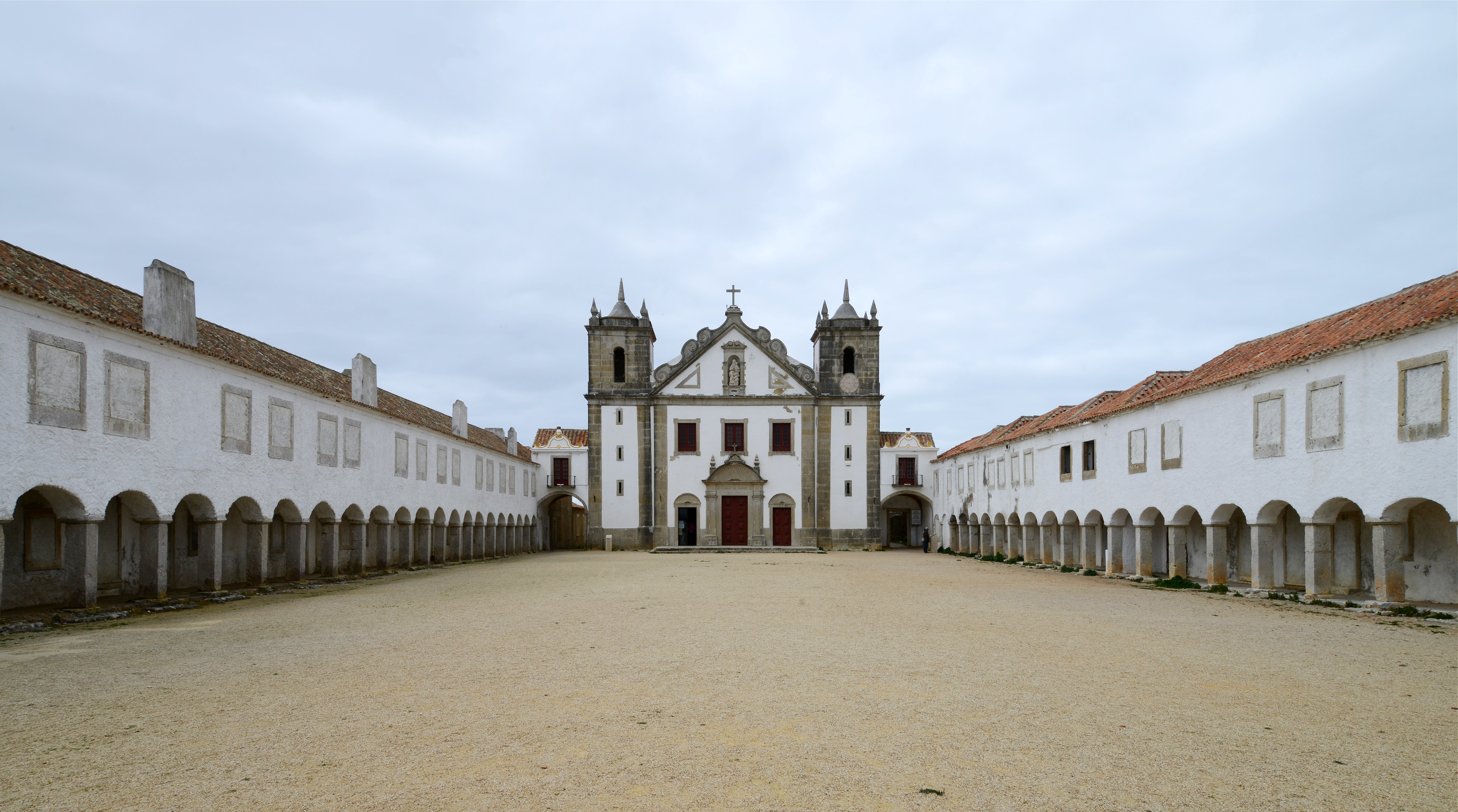 Church of Nossa Senhora da Pedra Mua, Portugal